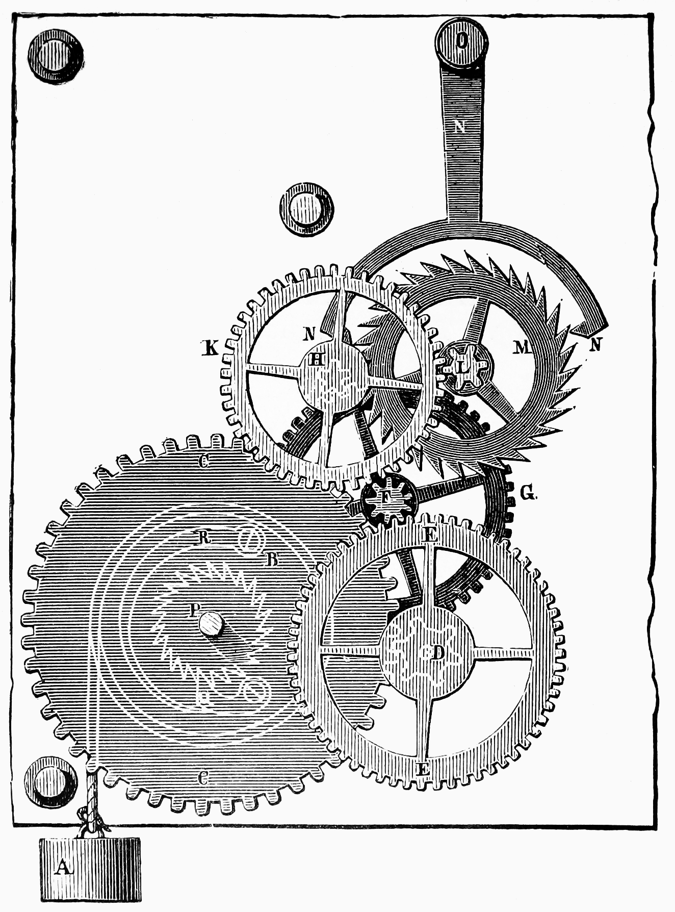 "Tidens naturlære" 1903 af Poul la Cour, Fig. 18. Penduluhret set bag fra. Bogen findes digitalt på Tidens Naturlære "Tidens naturlære" (Nature of time) 1903 by Poul la Cour, Ill. 19. The pendulum clock from the back. The book is digitized at Tidens Naturlære